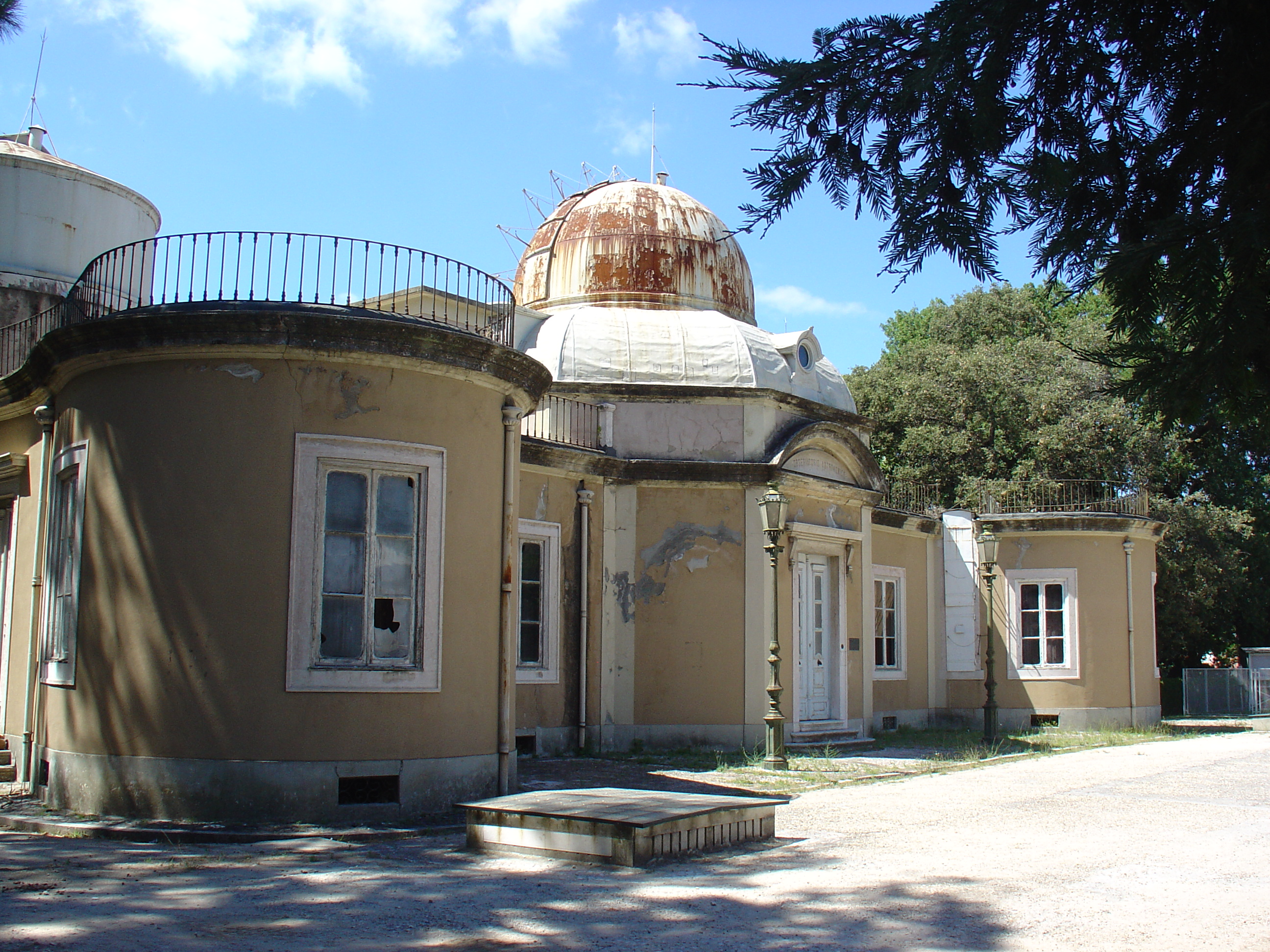 Old astronomic observatory in Lisbon. Jardim Botânico, Rua da Escola Politécnica, 58. Lisbonne.